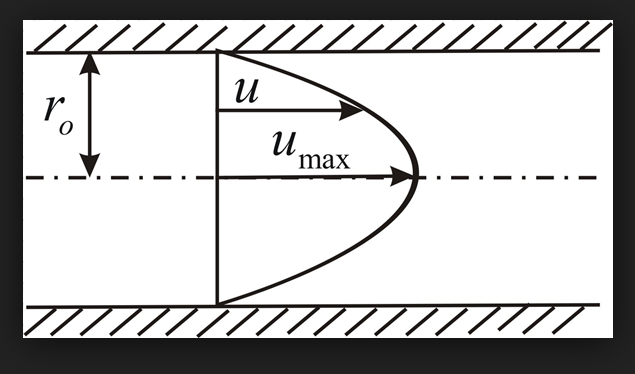 Flow pattern